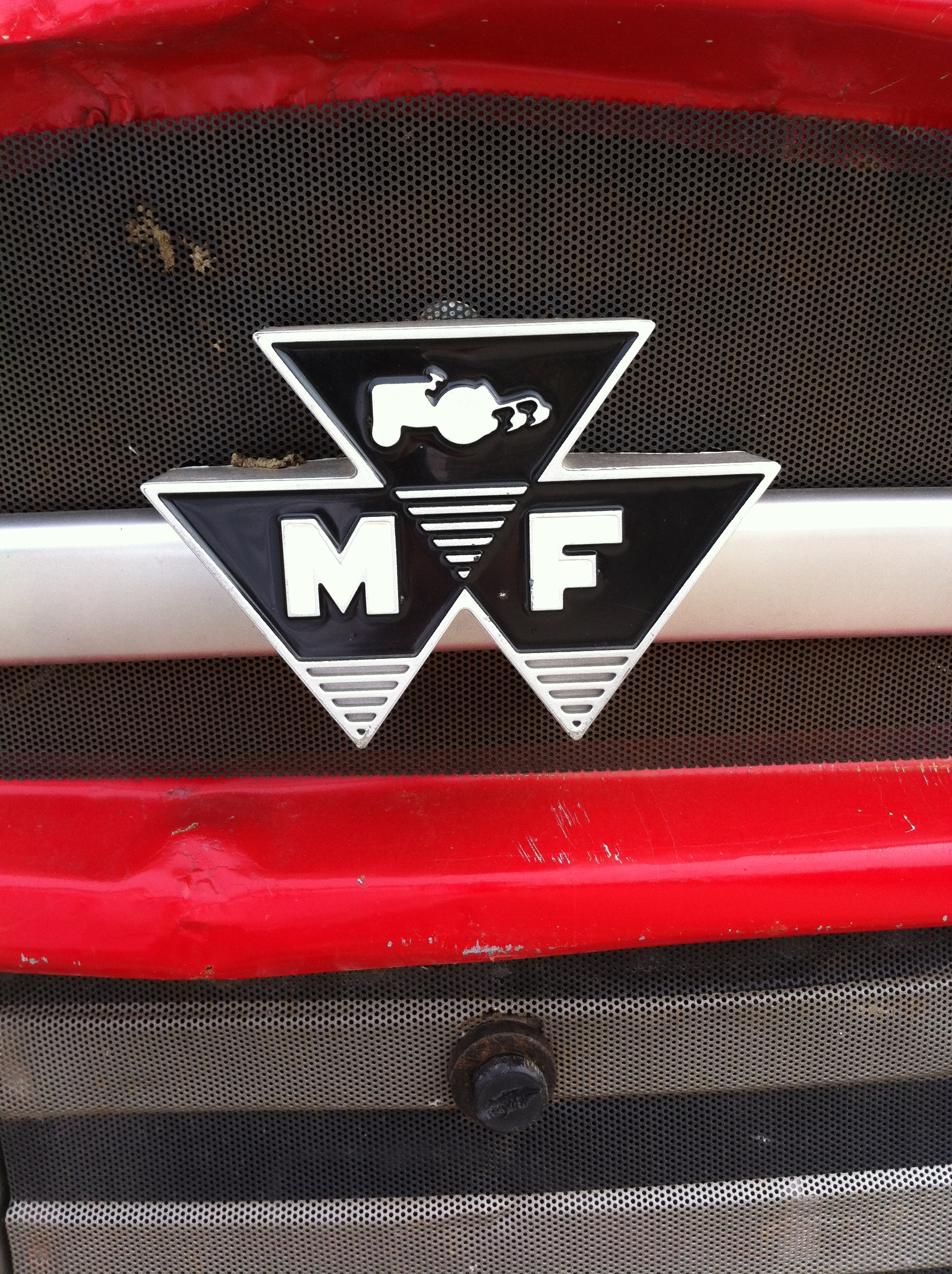 Massey Ferguson 165